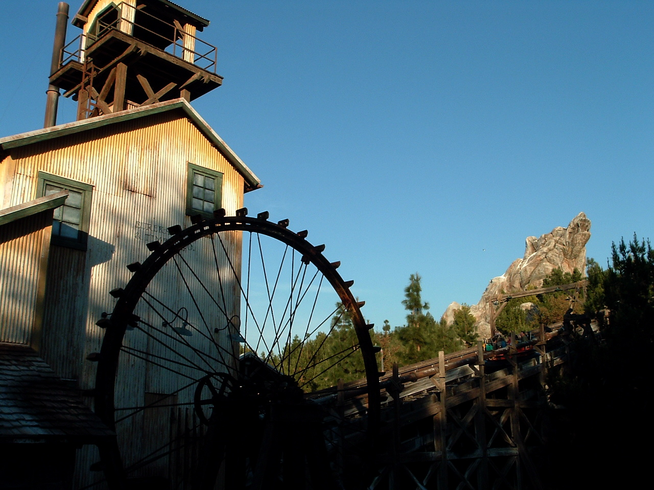 Water Mill with Grizzly Peak in the background